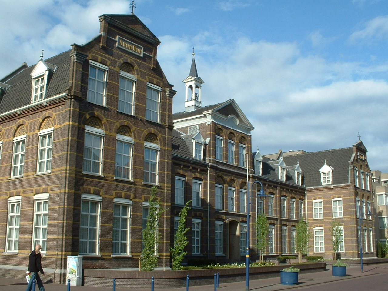 Franciscan nunnery in Veghel